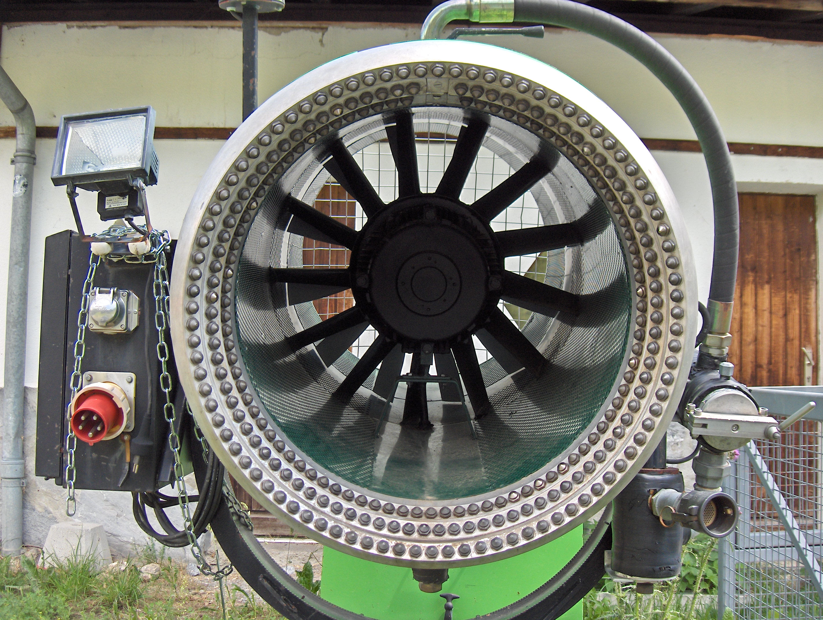 View on the inner part of a snow cannon. The nozzles that distribute the water are clearly visible. Author : Dake